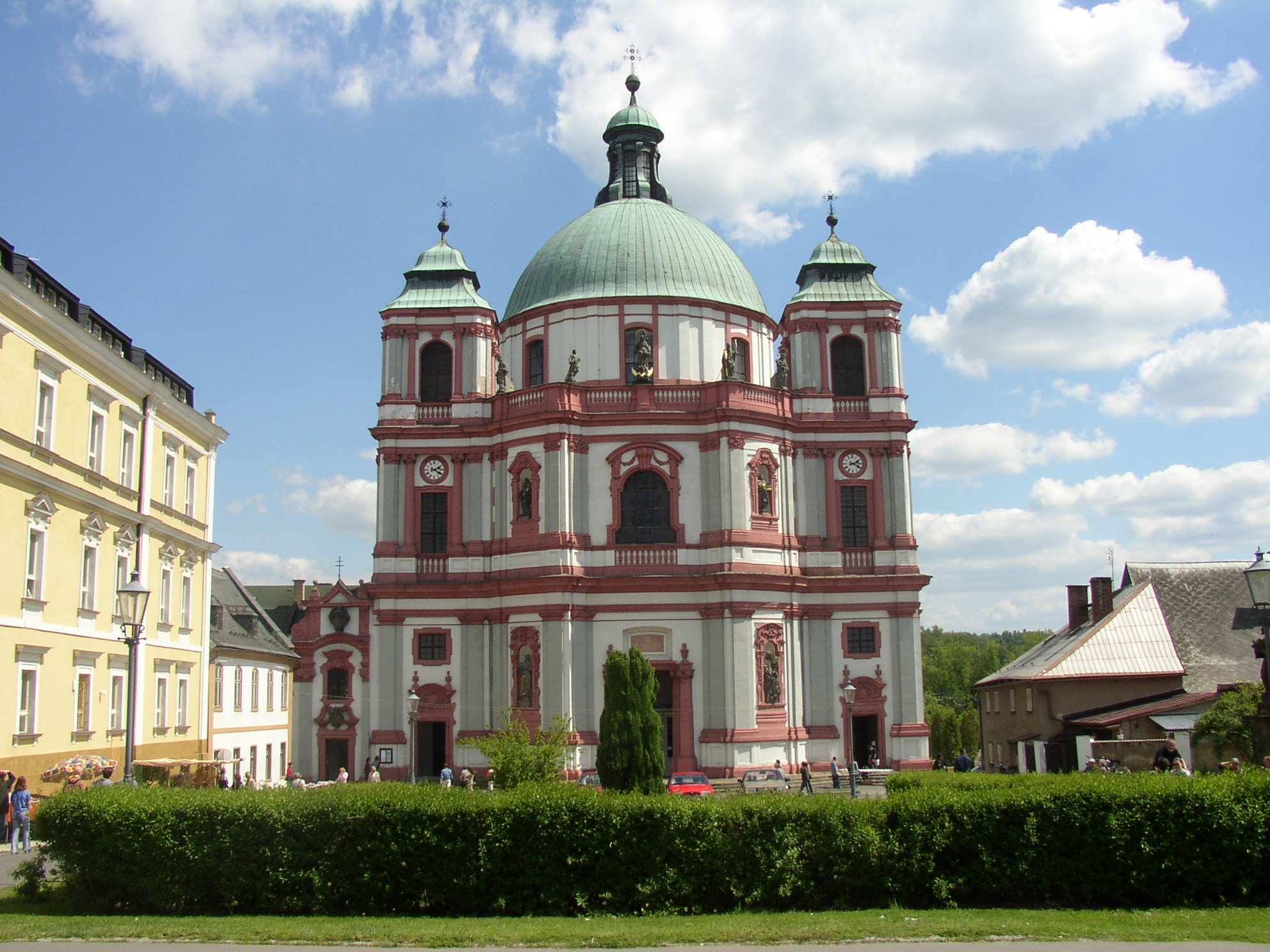 St Lawrence church in Jablonné v Podještědí, Czech Republic